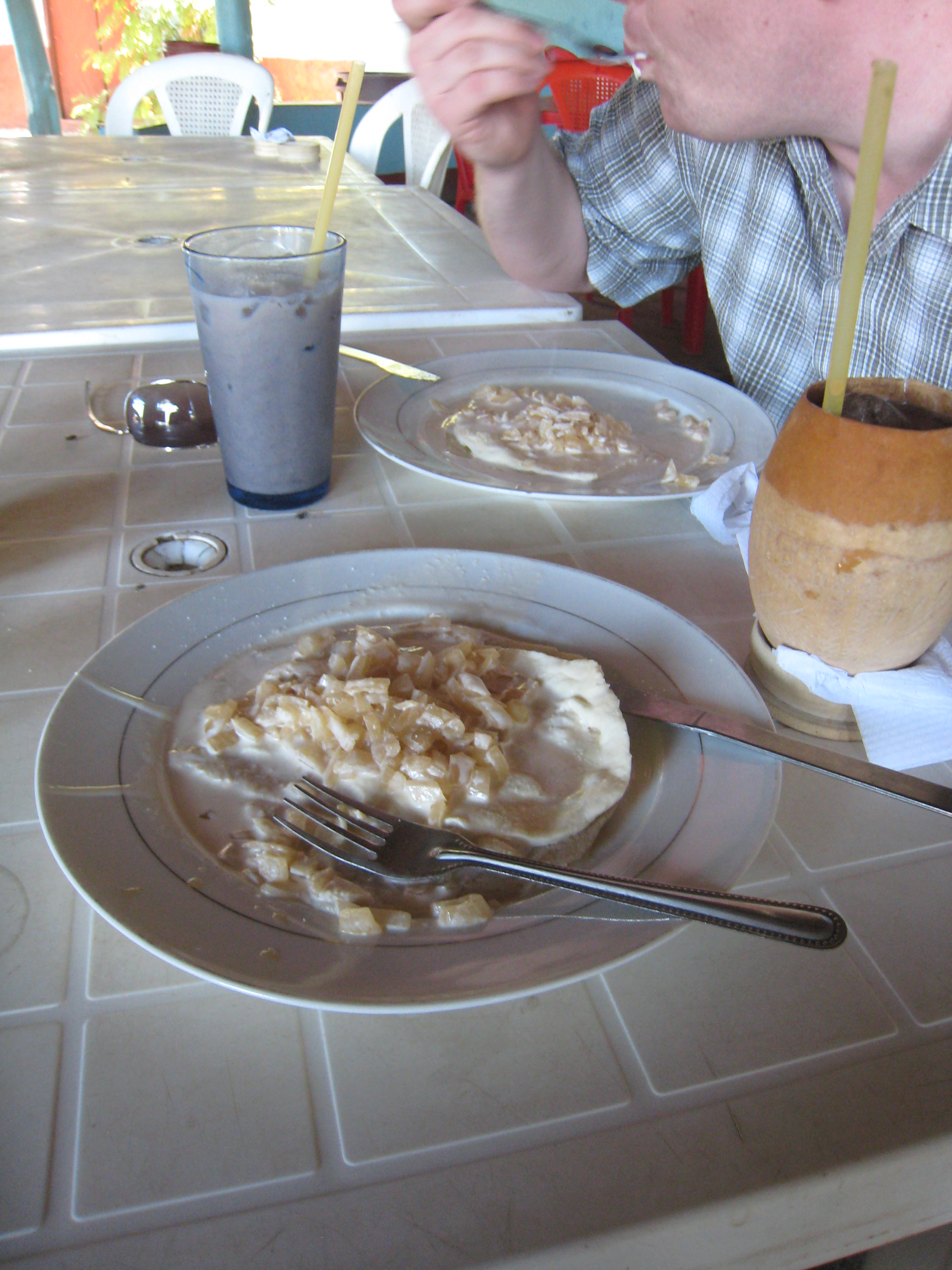 Nicaraguan-style quesillo: a tortilla wrapped around pickled onions and a soft, white cheese